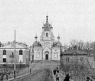 Russian military orthodox Church in Hämeenlinna, later library